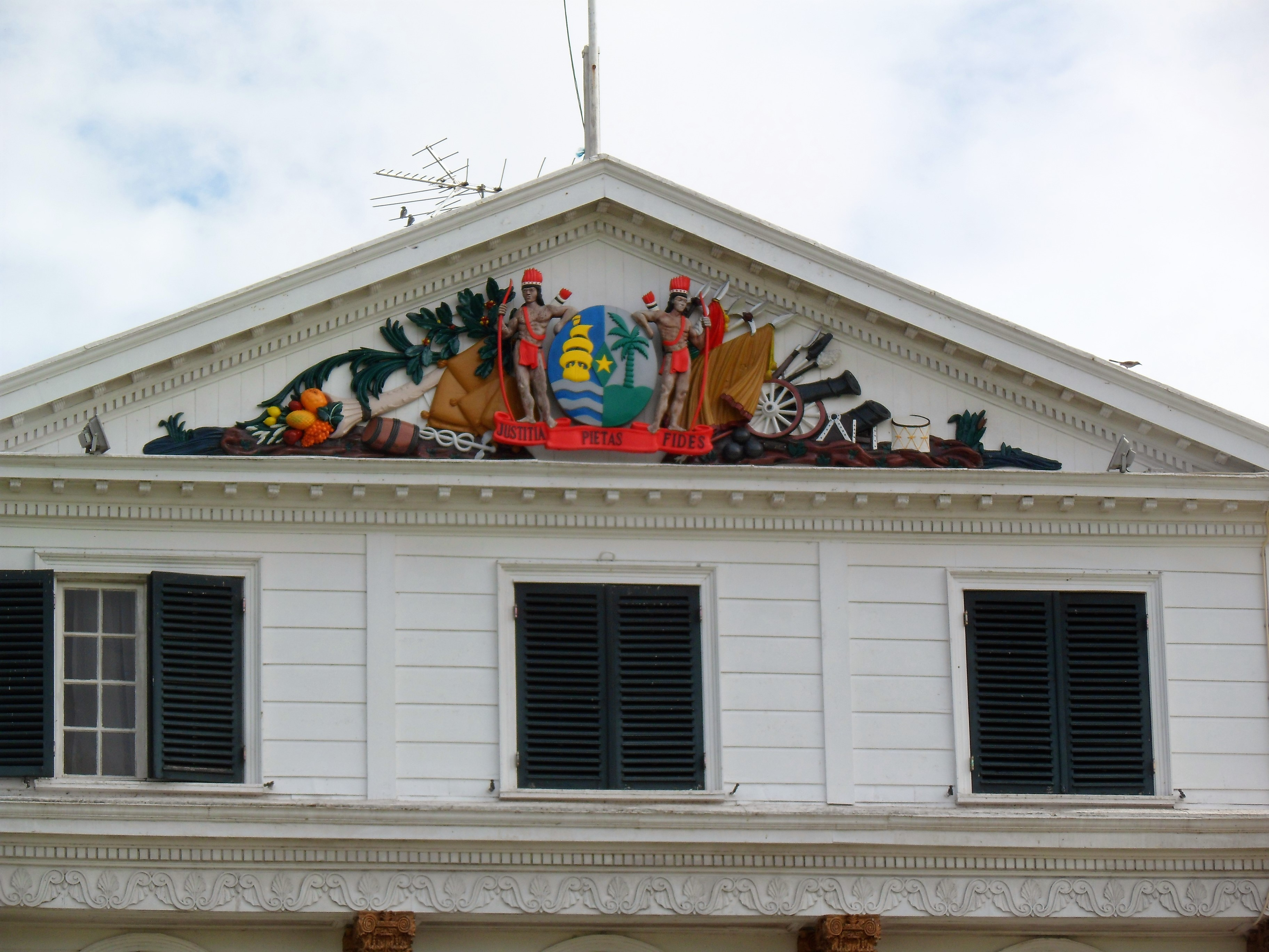 Coats of arms of Suriname, presidentenpalace Paramaribo